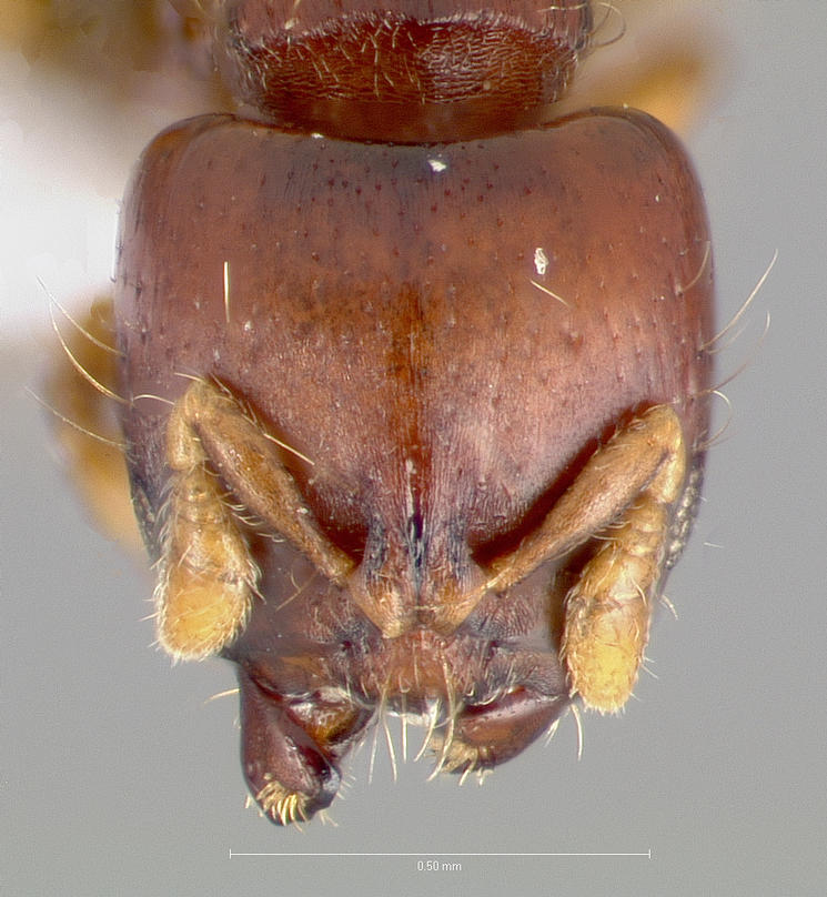 Head view of ant Melissotarsus weissi specimen casent0401869.